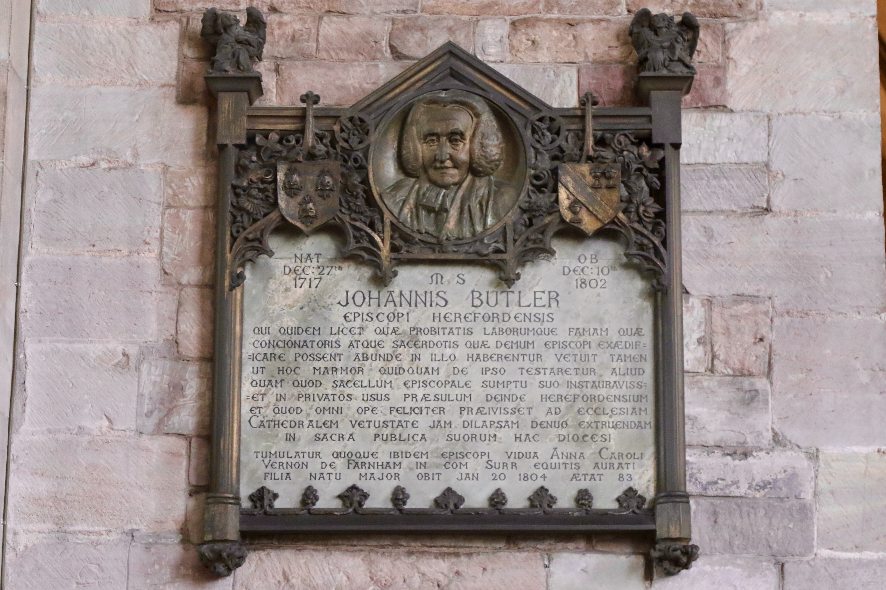 Johannis Butler, Episcopi Herefordensis. (Bishop of Hereford)